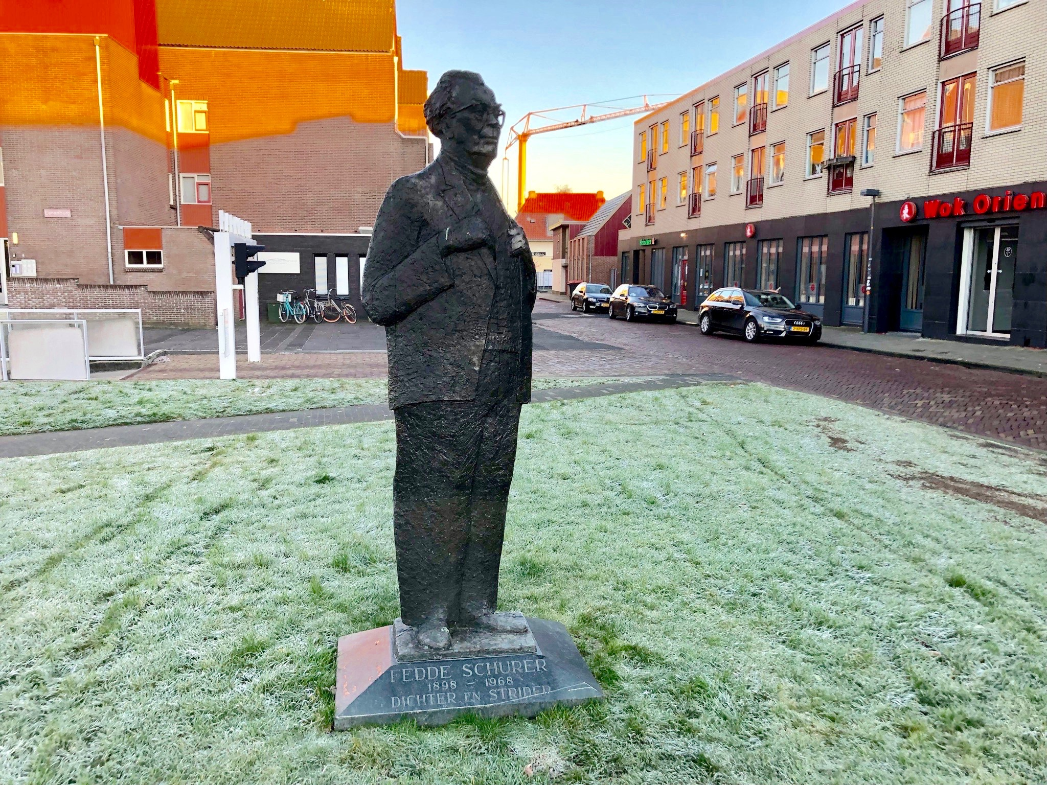 statue Fedde Schurer in Heerenveen made by Guus Hellegers in 1974.